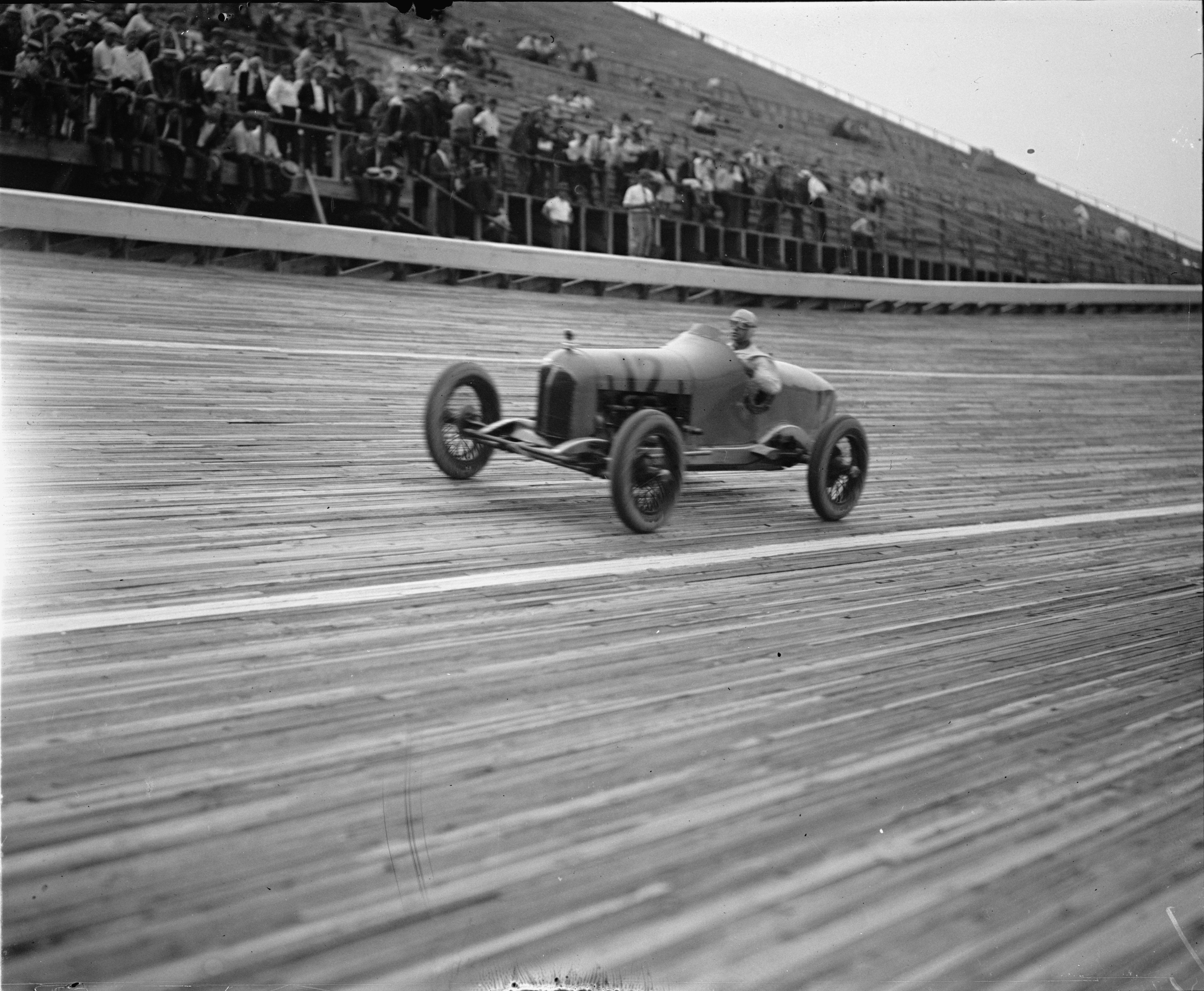 Pete DePaolo (American racecar driver) in 1925